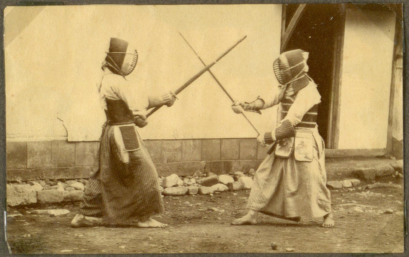 Photograph from Nagasaki 1868; donated by Marine Lieutenant G. Olrik 1870. No. es_b_00623